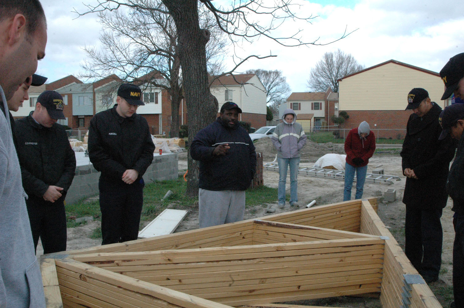 Norfolk, Va. (Jan. 17, 2007) - Antonio Burke, pastor for the Center of Love Church of God in Christ (COGIC), leads Sailors from amphibious transport dock USS Nashville (LPD 13) in a prayer before building a house for Habitat for Humanity in Norfolk, Va. The work being done by Nashville Sailors is part of a ship-wide goal to dedicate 6,000 hours of community service time to the local area this year. U.S. Navy photo by Mass Communication Specialist Seaman John Suits (RELEASED)